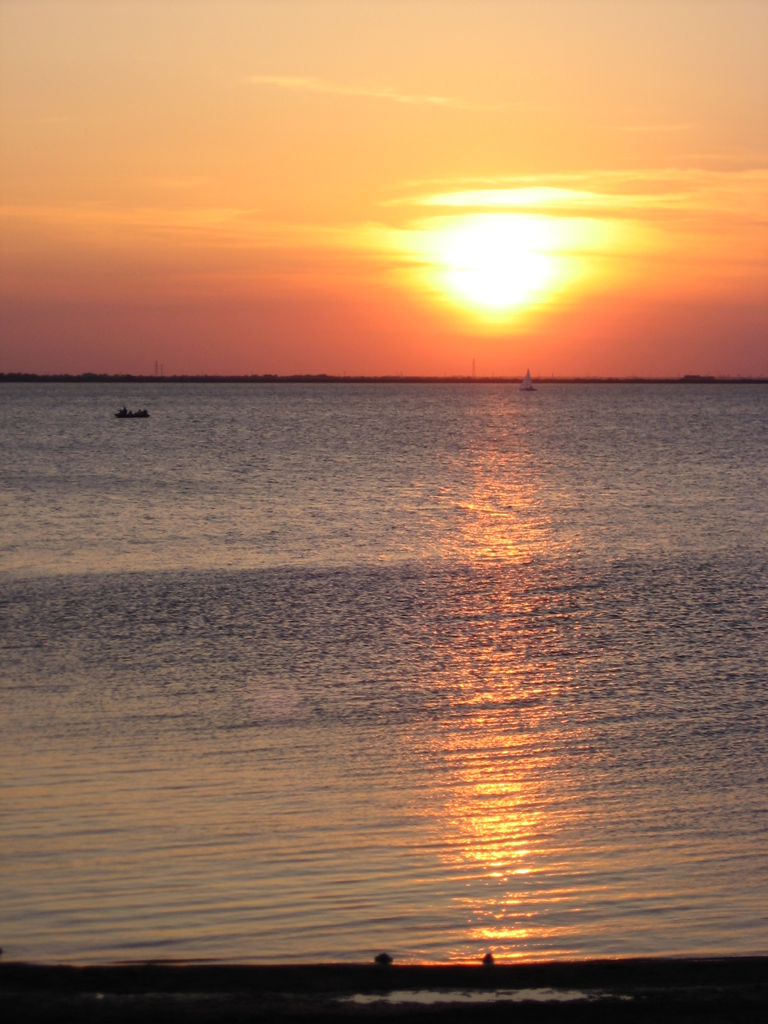 Sunset over Lake Hefner in northwest Oklahoma City.